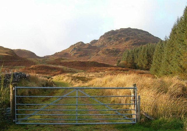 Drove road from Ford to Kintraw, Argyll; Dun Dubh (301 m) is the hill ahead